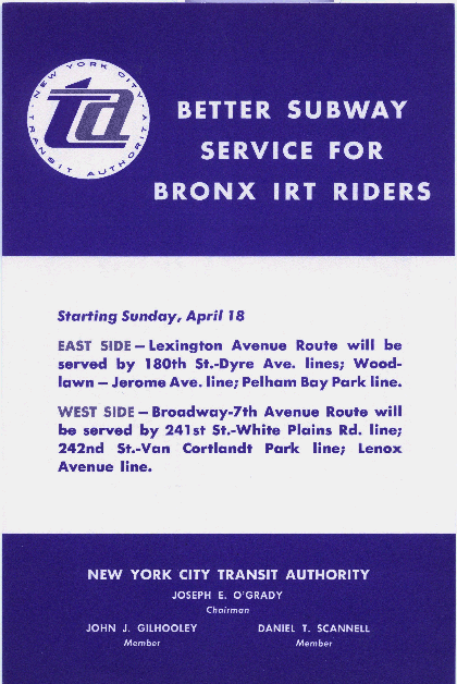 This was a brochure given out to passengers by the New York City Transit Authority in anticipation of the April 18, 1965 changes in IRT service.